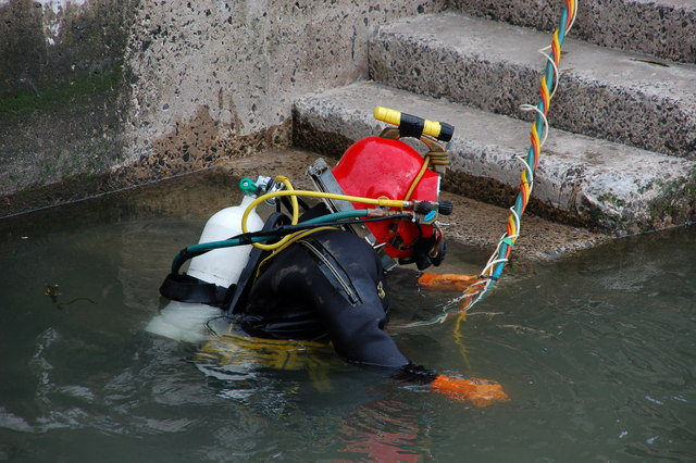 Former fishing boat, Carrickfergus harbour (2). The sunken fishing boat was finally re-floated with the assistance of a diver and the multicat "Sgt Pepper". This is the diver.